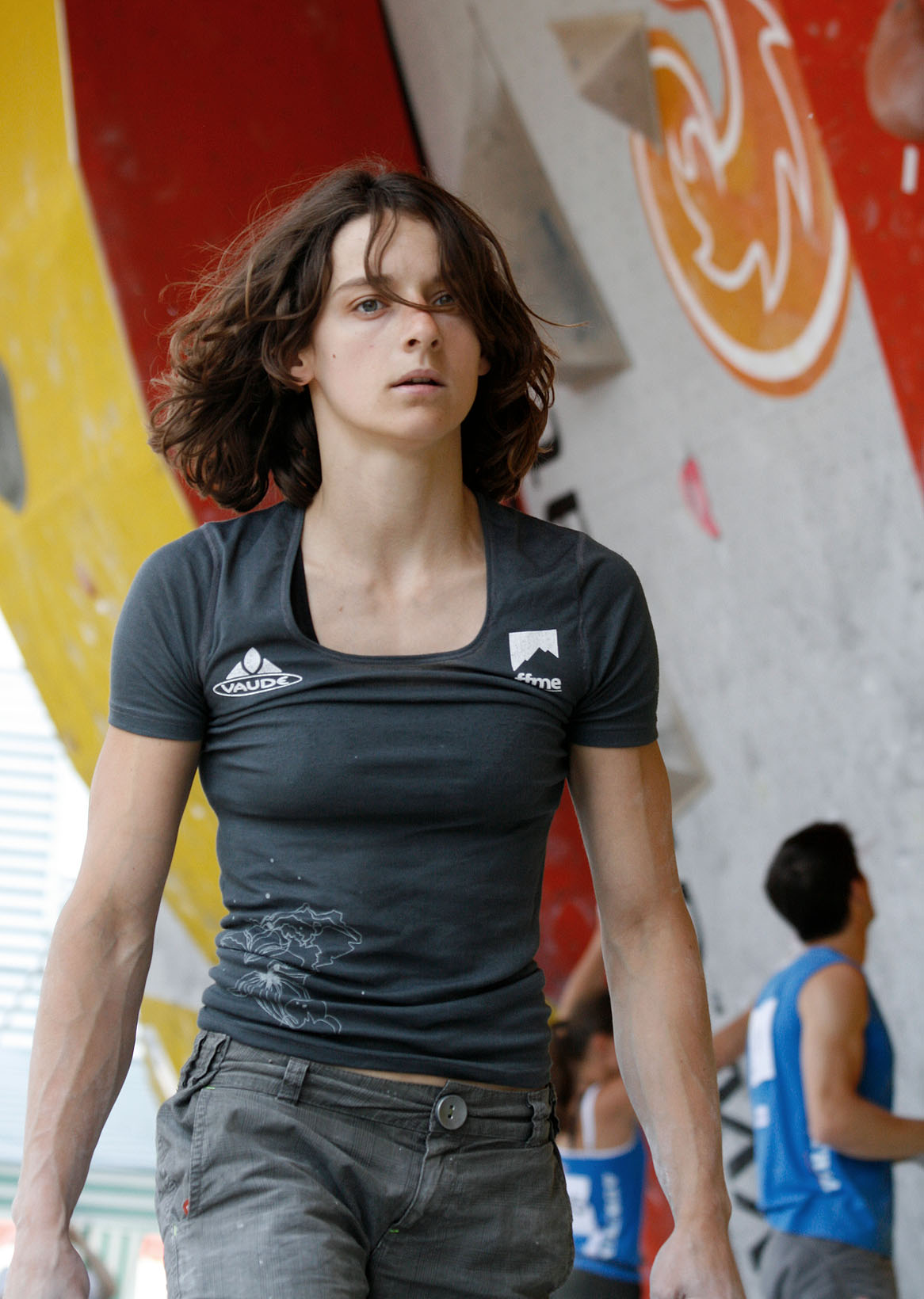 Melissa Le Nevé during the semi-finals at the IFSC Boulder Worldcup Vienna 2010.